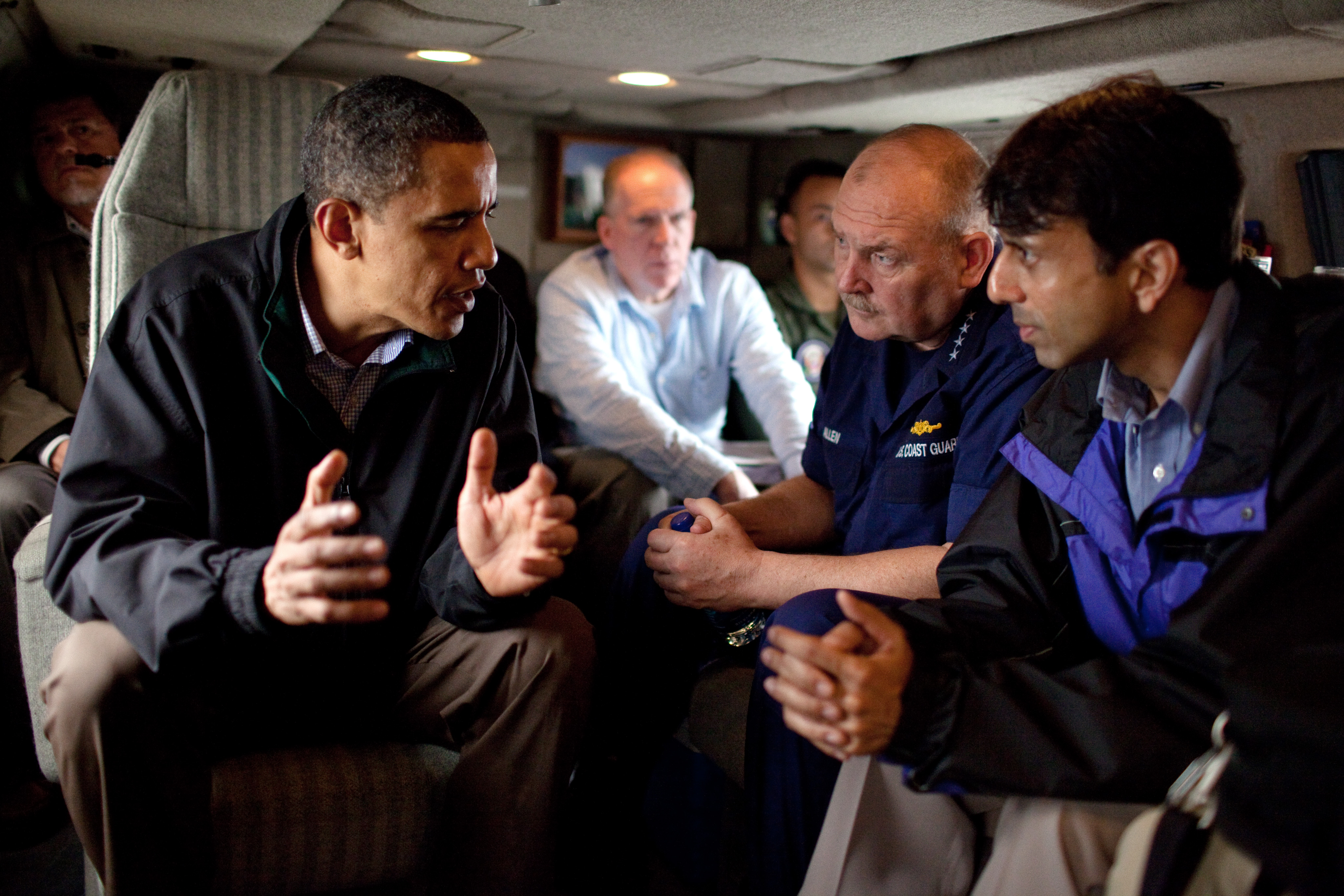 U.S. President Barack Obama talks with U.S. Coast Guard Commandant Admiral Thad Allen, who is serving as the National Incident Commander, and Louisiana Gov. Bobby Jindal, aboard Marine One as they fly along the coastline from Venice to New Orleans, La., May 2, 2010. John Brennan, Assistant to the President for Homeland Security and Counterterrorism, is in the background.